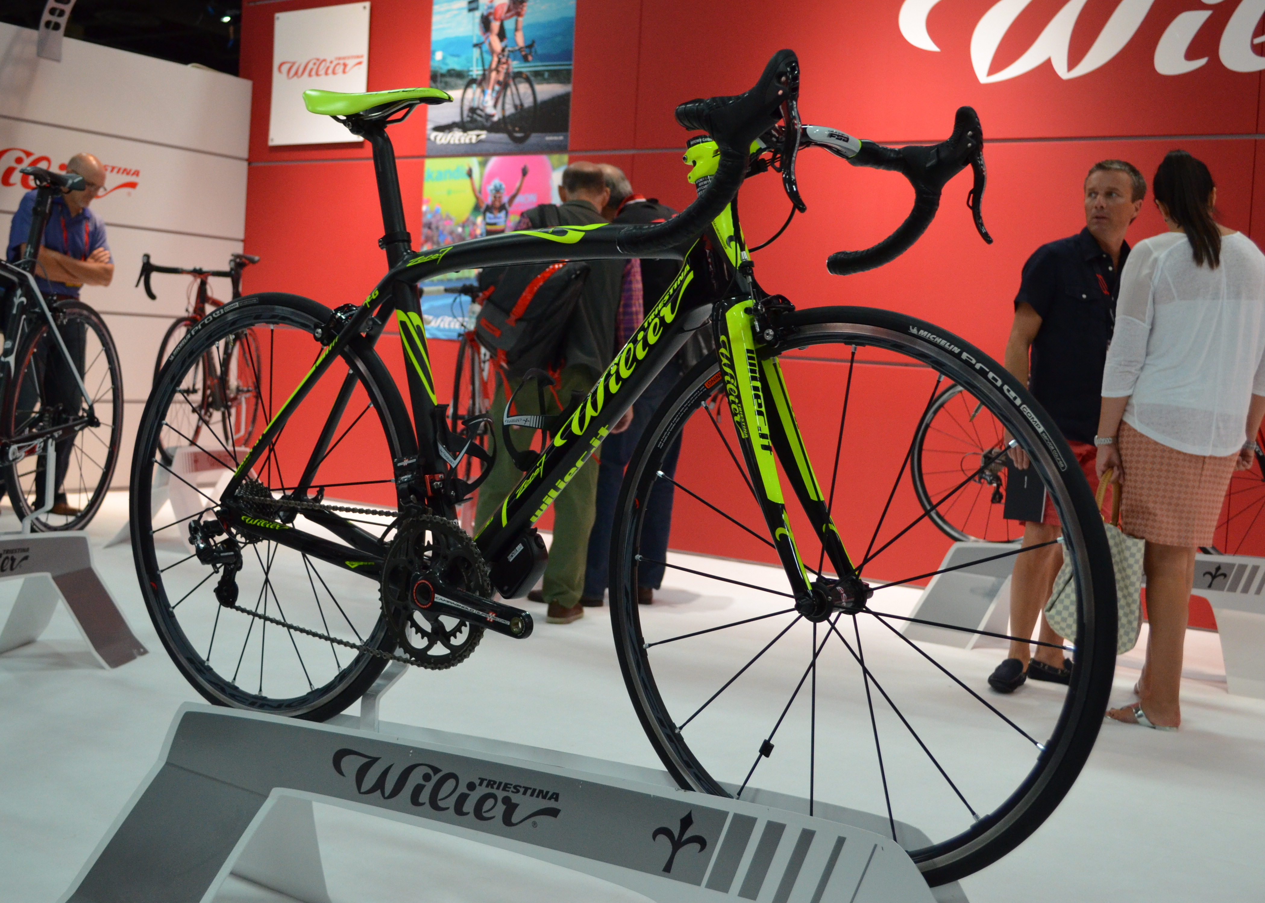 Italian brands always lead the style department.